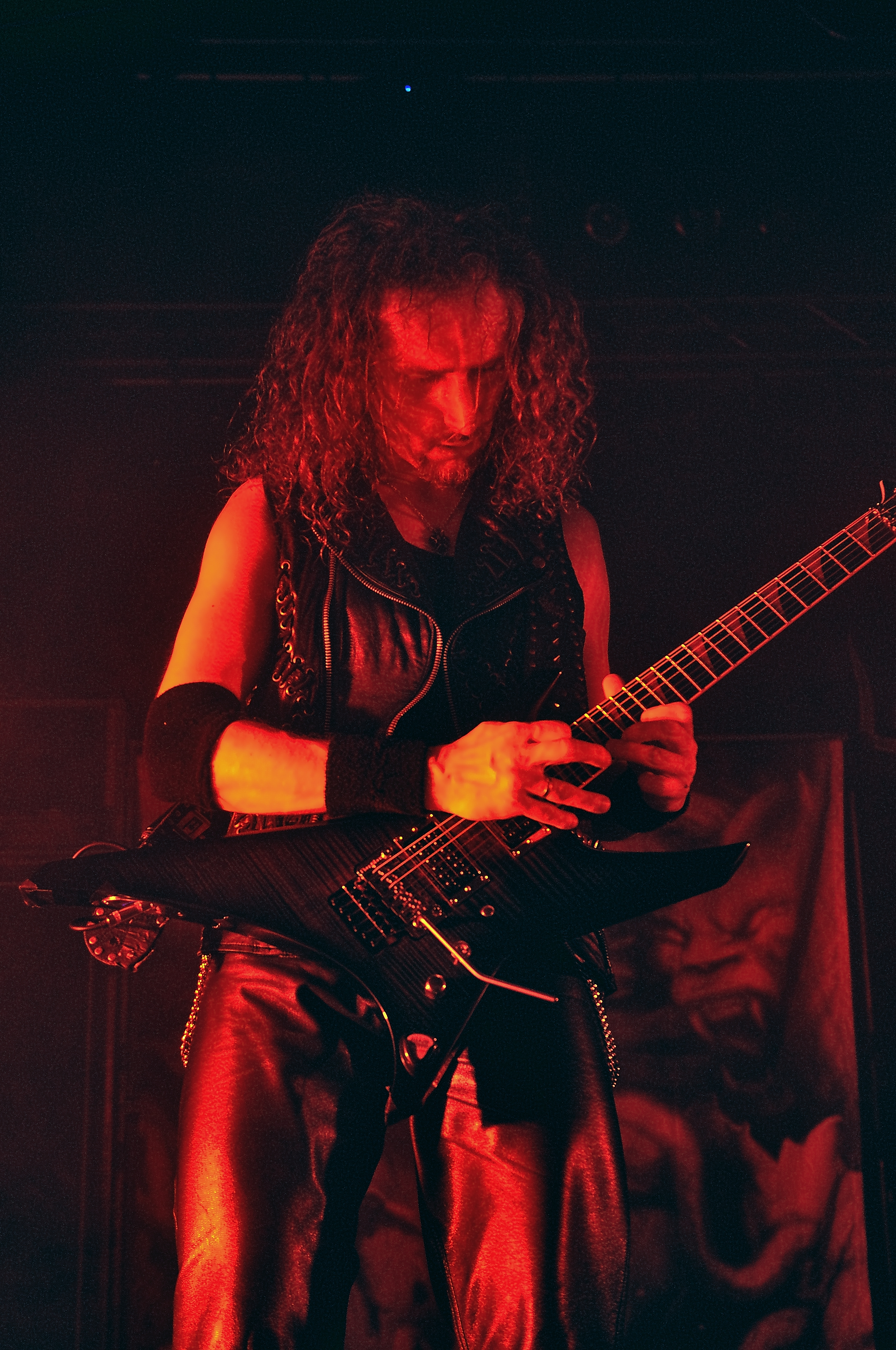 Vader at Hatefest 2015 in Berlin.